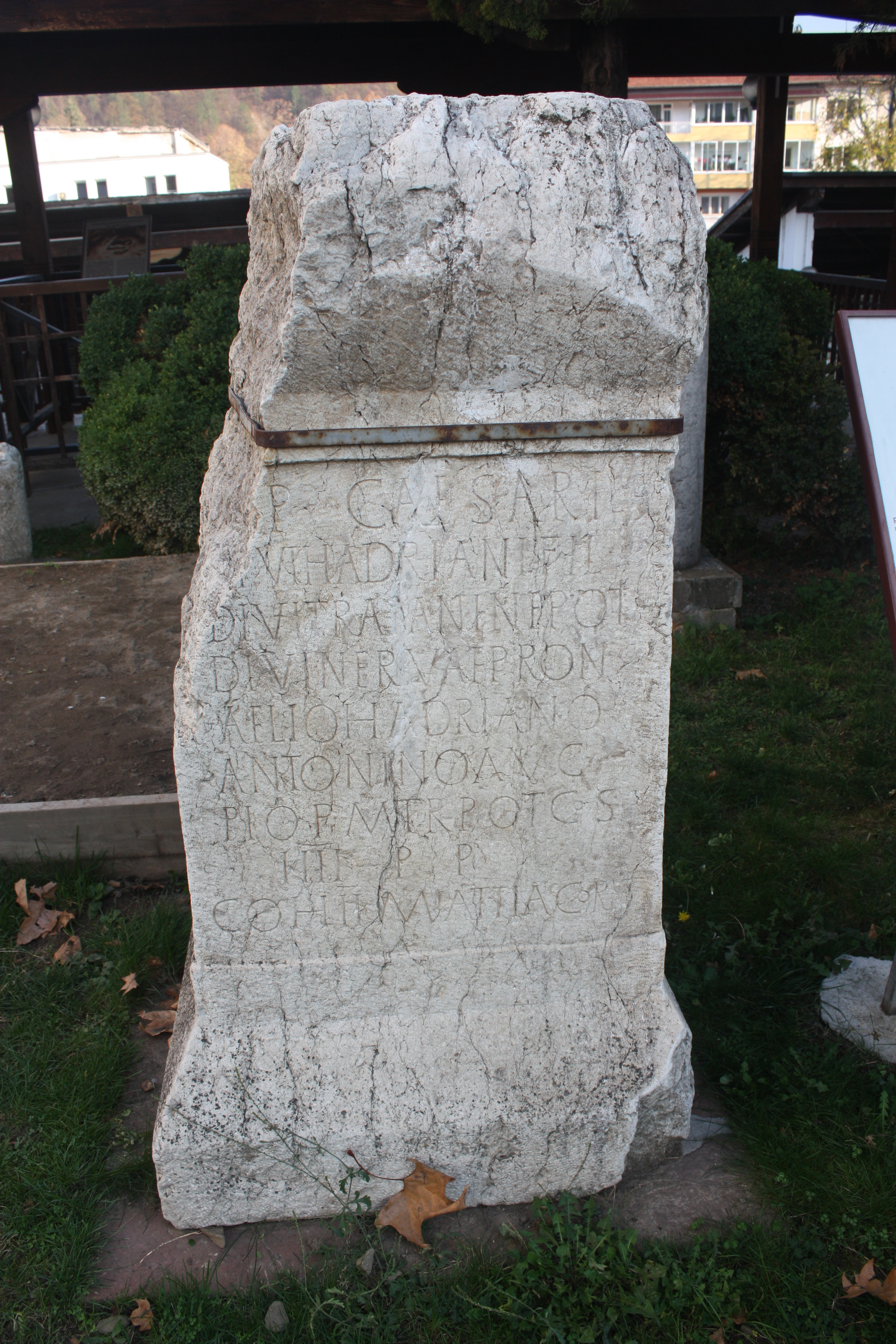 Roman inscription from Troyan, Bulgaria, marbled limestone, ascribed to Emperor Antonivs Pivs, 145 AD